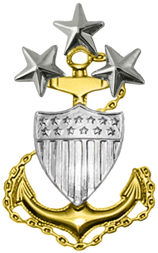 US Coast Guard Master Chief Petty Officer of the Coast Guardshoulder patch rate insignia